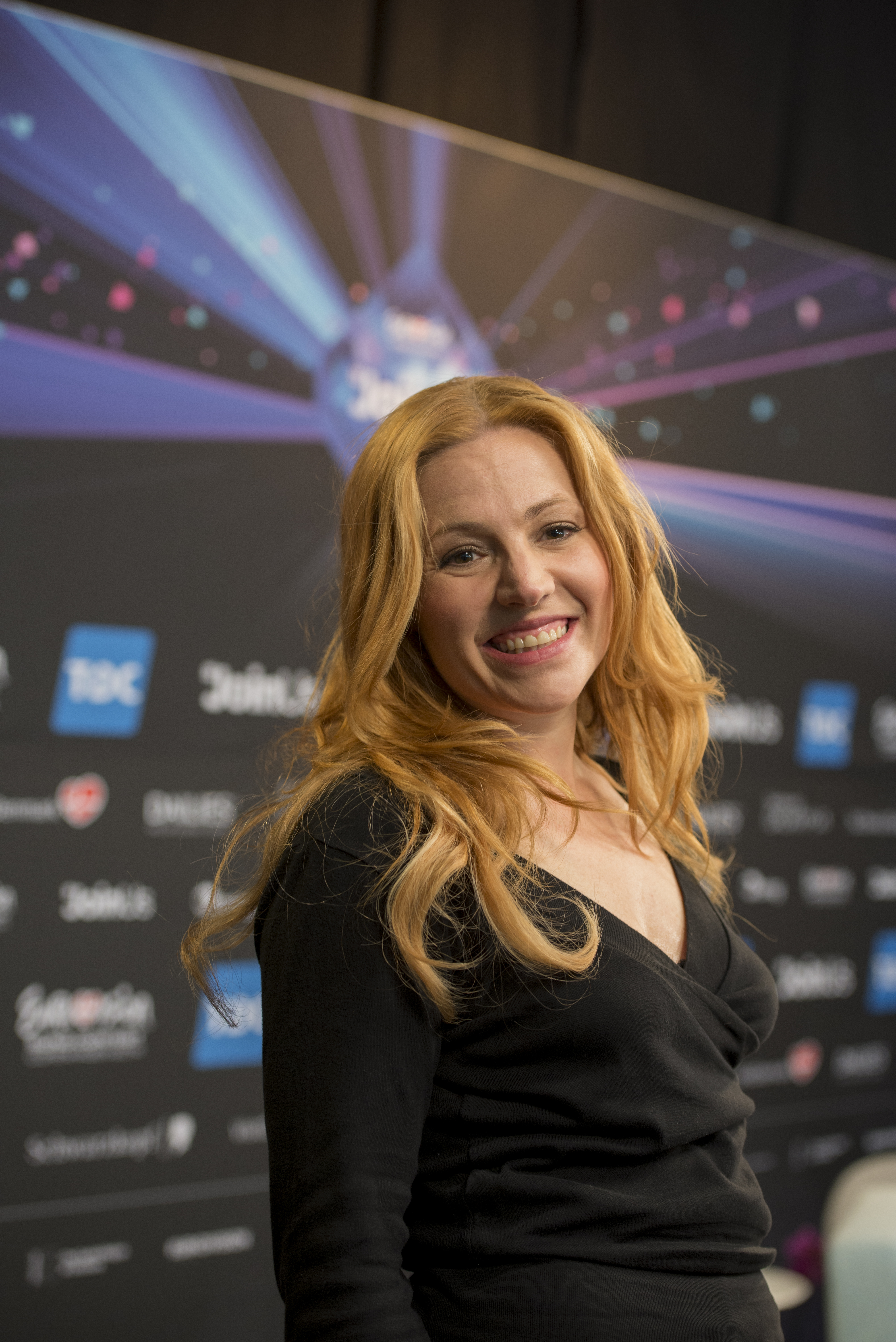 Valentina Monetta at a Meet & Greet during the Eurovision Song Contest 2014 Copenhagen. (Help translate this text)